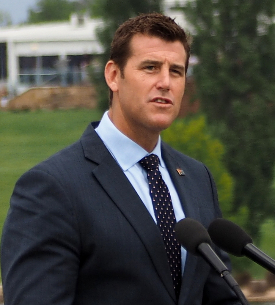 Ben Roberts-Smith speaking at the 2015 National Flag Raising and Citizenship Ceremony